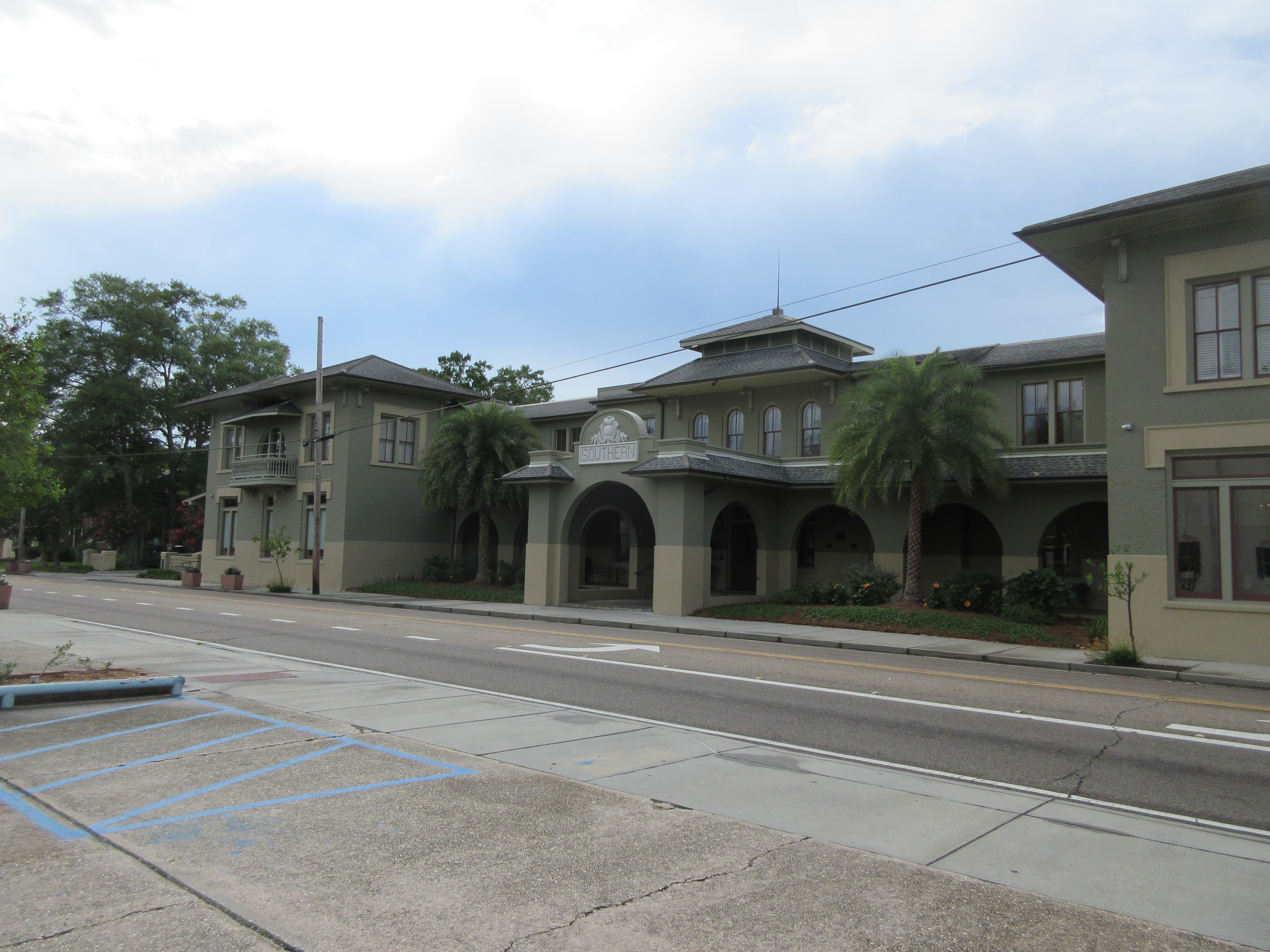 Covington, St. Tammany Parish, Louisiana. Southern Hotel. Photo by Infrogmation of New Orleans, 17 June 2017. Free reuse with author attribution in accordance with any of the licenses listed by the author/photographer. Reuse without photo attribution is a violation of copyright.